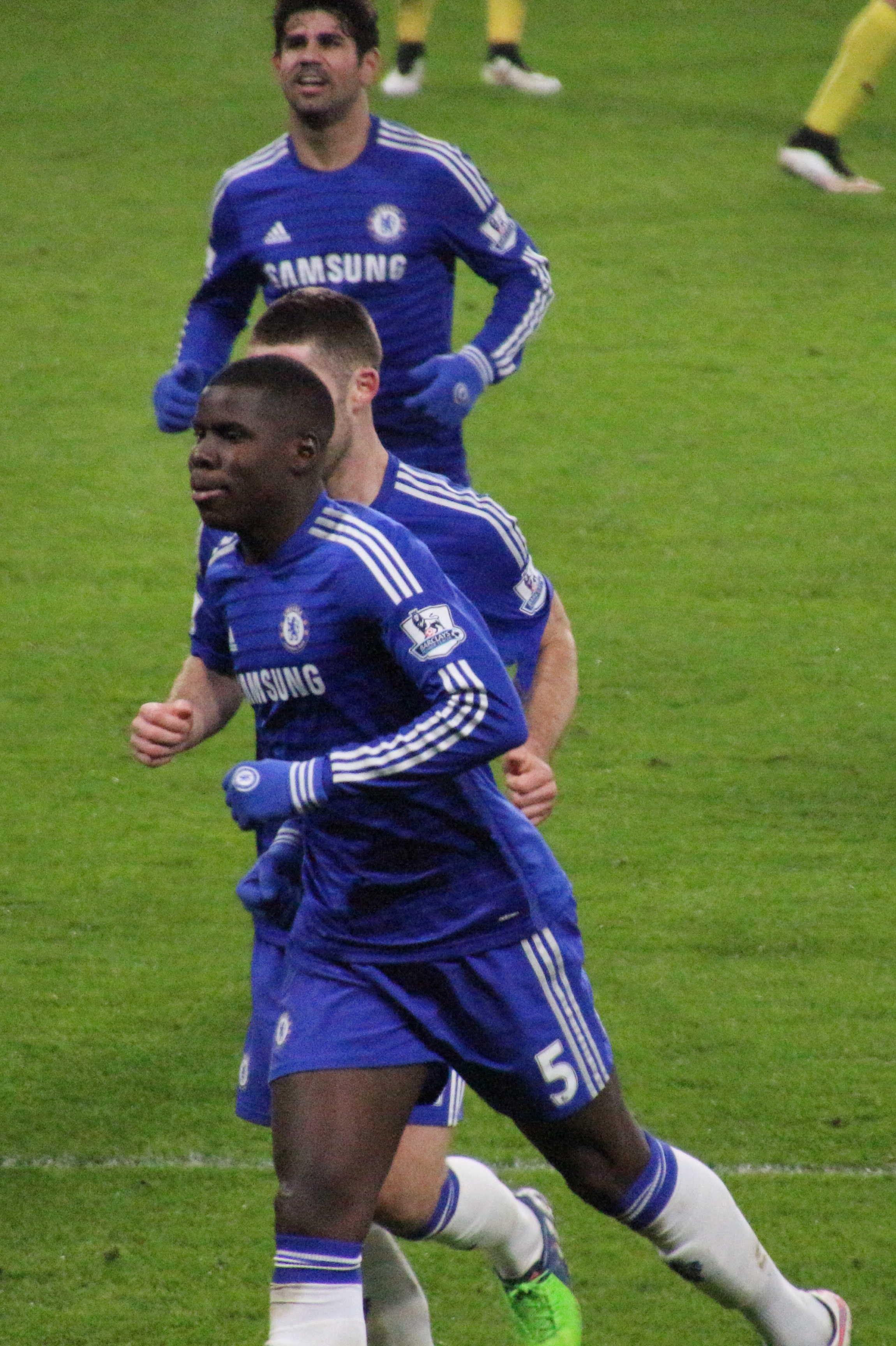 Kurt Zouma of Chelsea